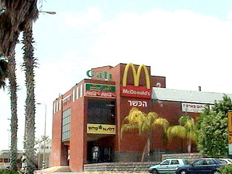 McDonald's in Israel